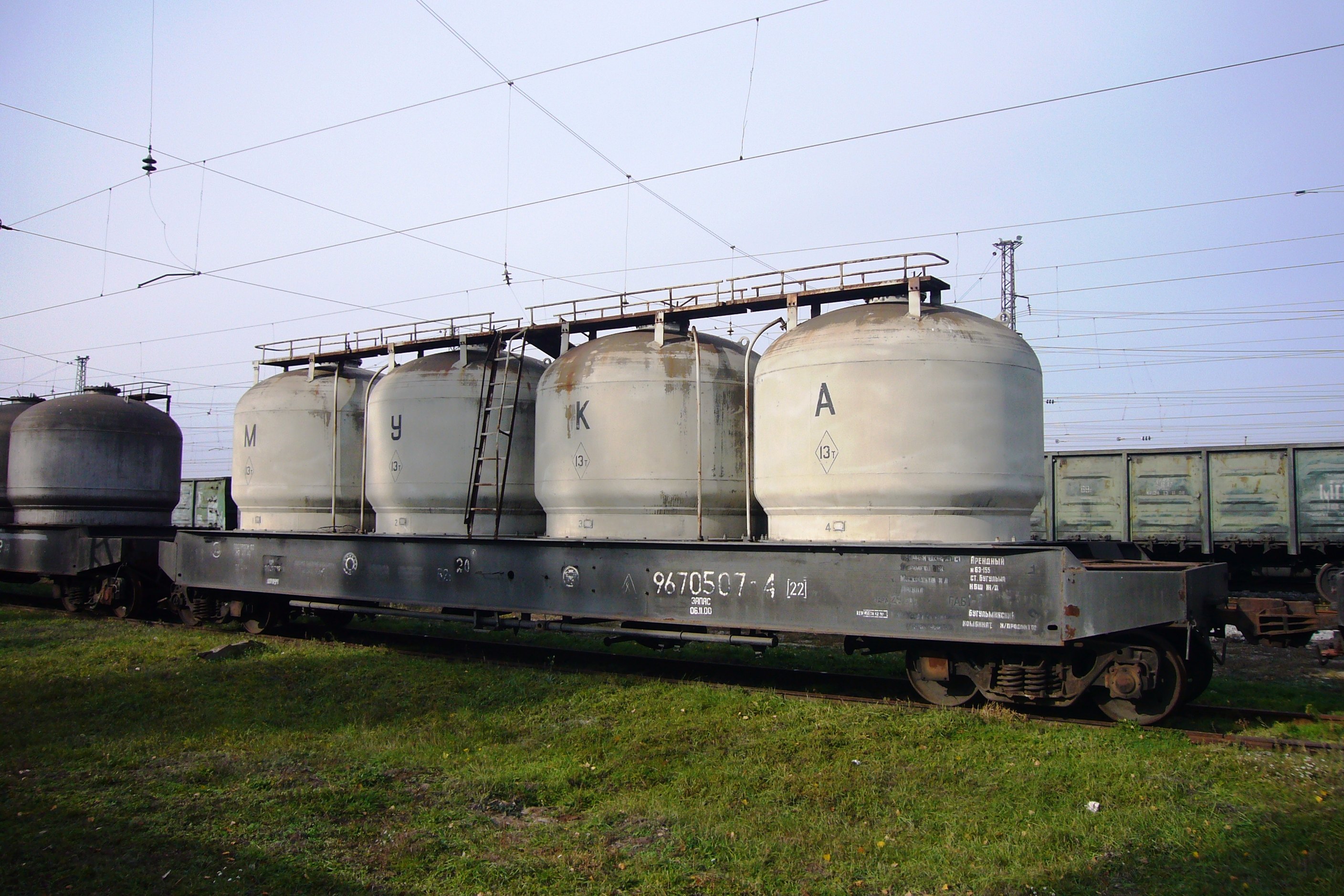 A railway wagon transporting flour, model 17-486, Pavlograd railway station, Dnepropetrovsk Oblast, Ukraine, 2008.